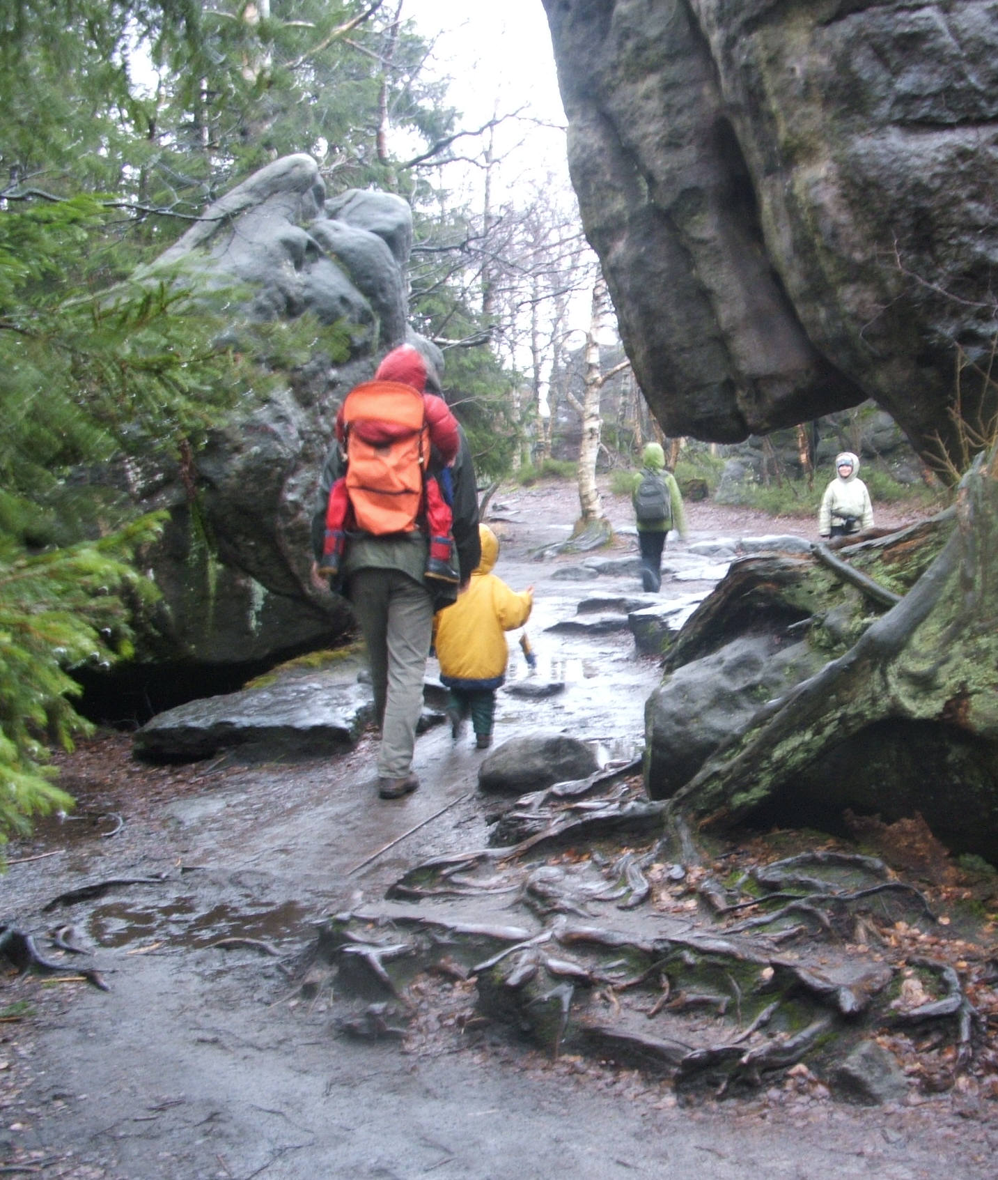 path in Szczeliniec Wielki Nature Reserve in Polish Sudetes